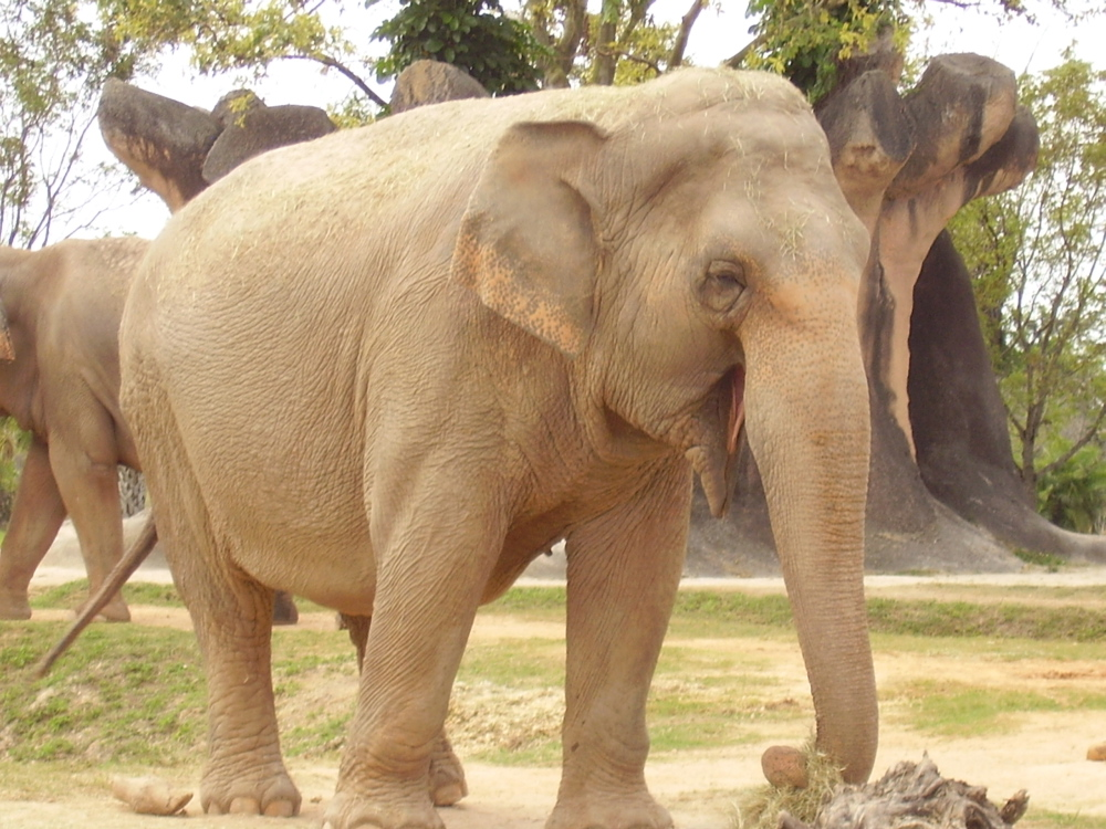 A female Asian elephant eating, taken in Miami Metrozoo